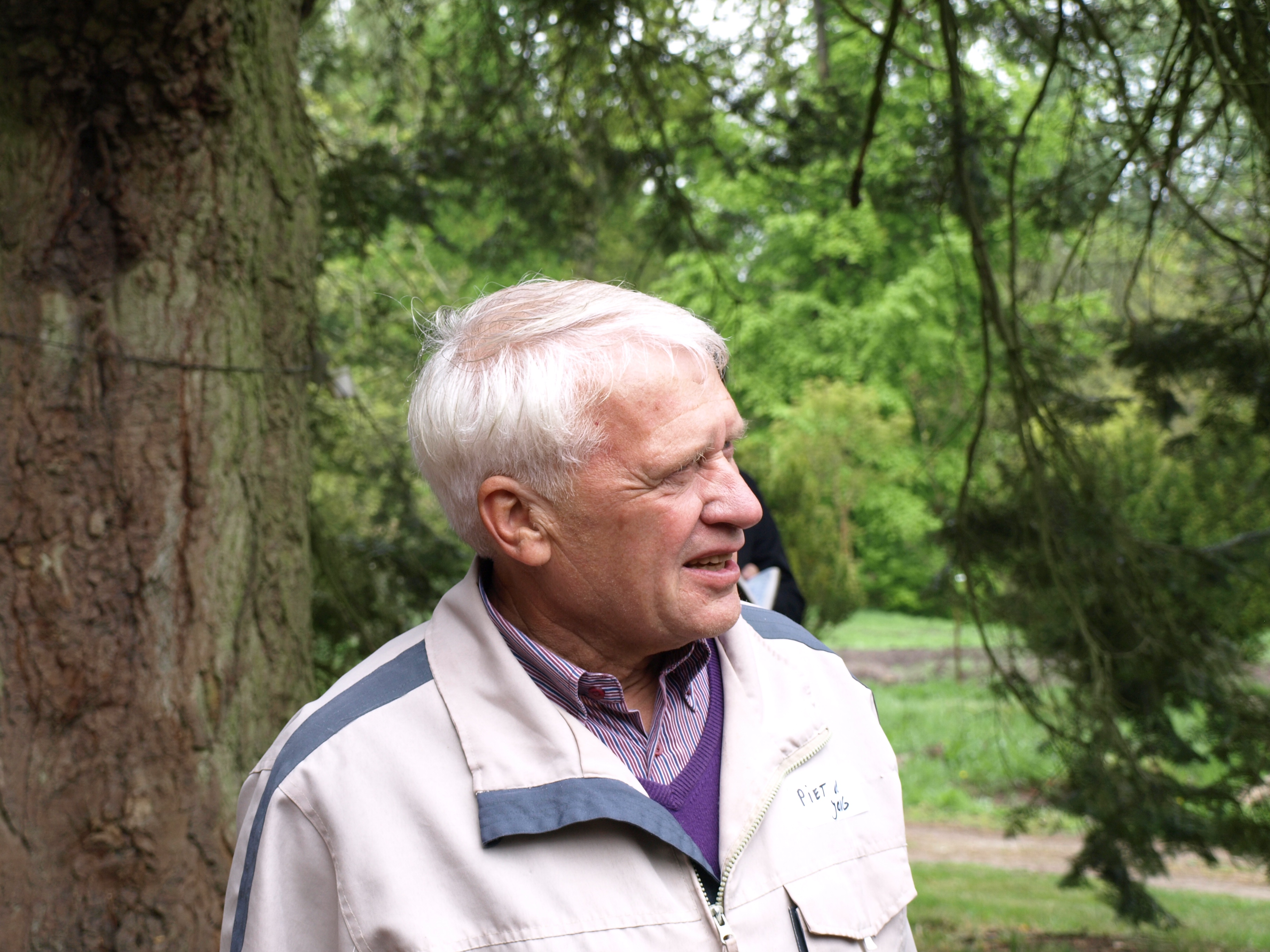 Piet de Jong in Gimborn Arboretum, Nl.